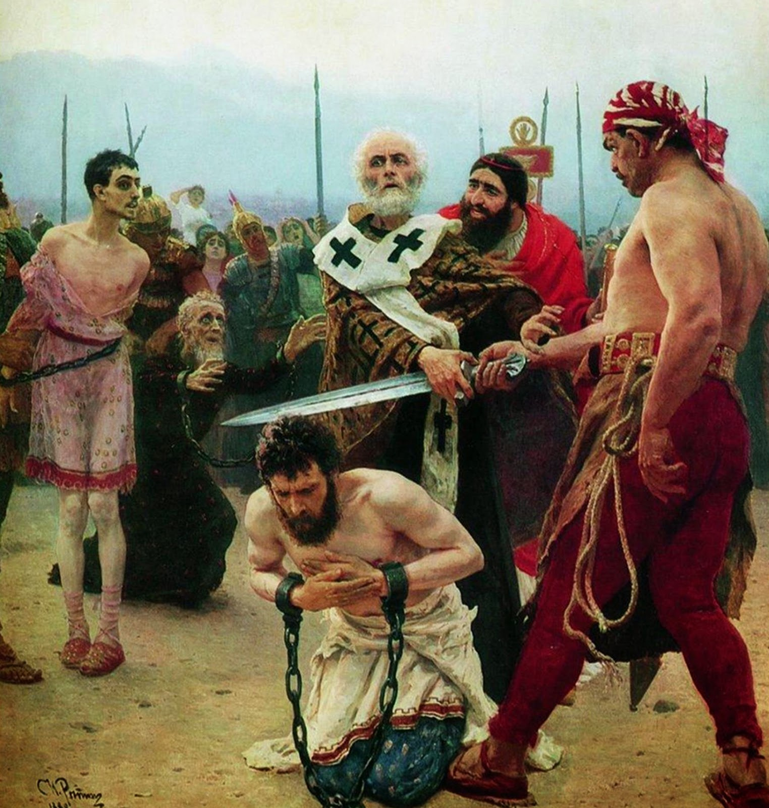 Saint Nicholas of Myra saves three innocents from death.